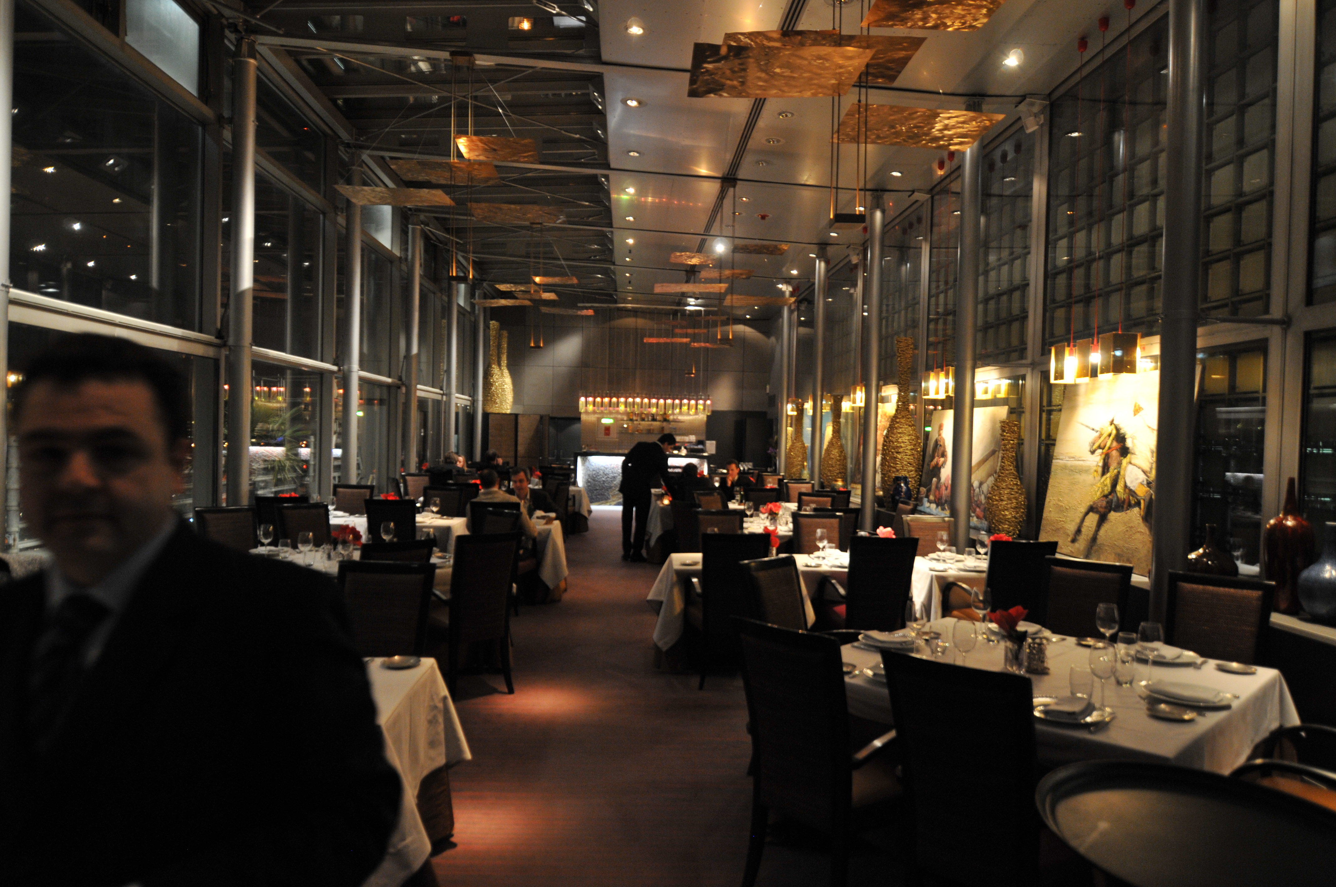 Noura Restaurant at the Institut du monde Arabe is a very high quality, gourmet place serving authentic Lebanese cuisine. the Restaurant is on the top floor of the institut with a beautiful terrasse overlooking Notre Dame and Paris